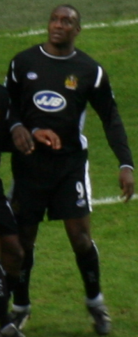 Emile Heskey. Image cropped from original at flickr.